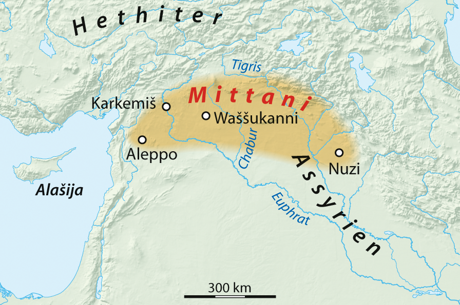 Map of Mitanni